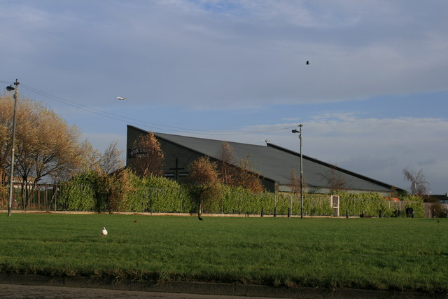 Our Lady's Church, Darndale, Co. Dublin, near to Belcamp, Coolock, Balgriffin, Woodlands and Saint Doolaghs, Dublin, Ireland.